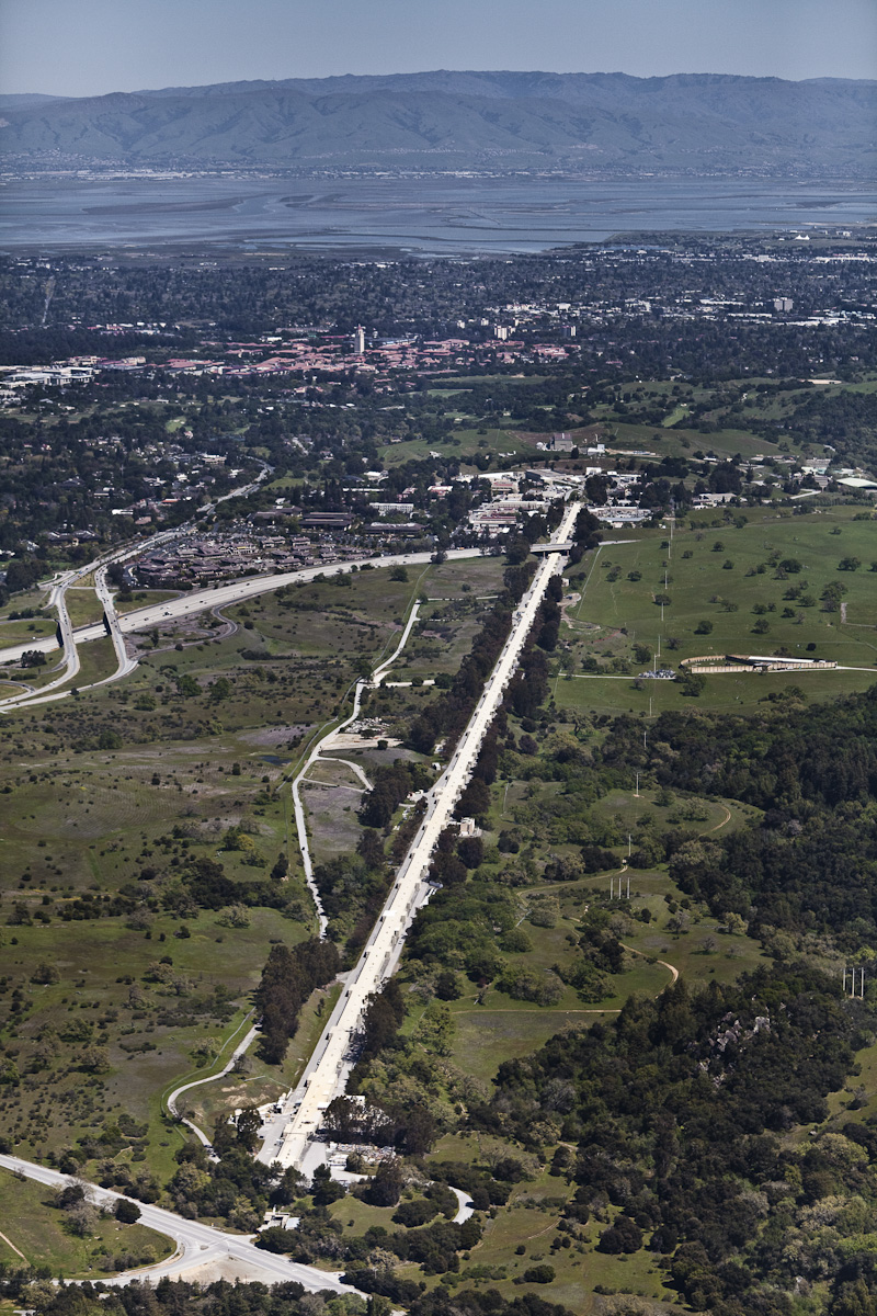 An aerial view shows the SLAC National Accelerator Laboratory in Menlo Park, Calif.